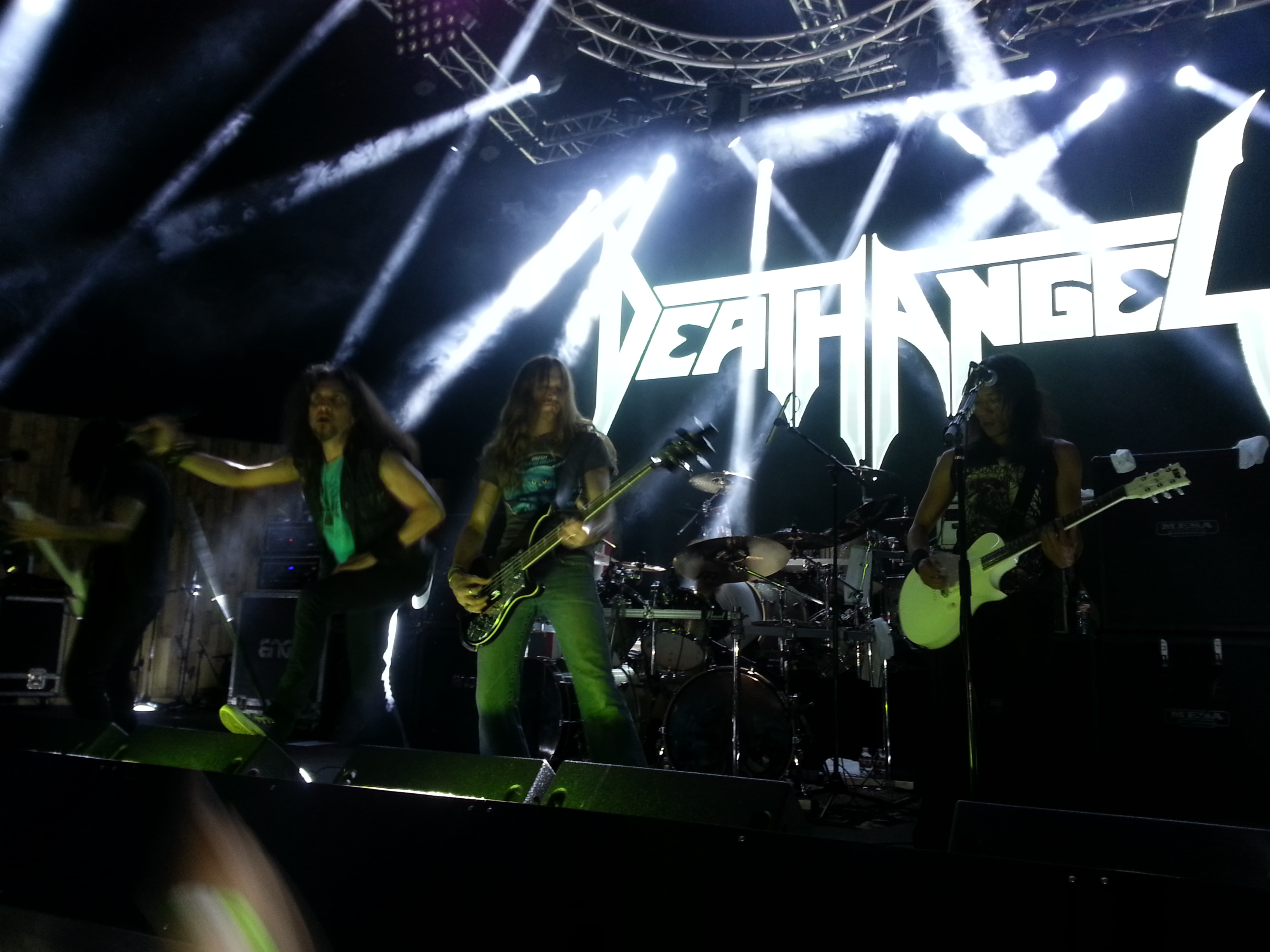 Death Angel performing